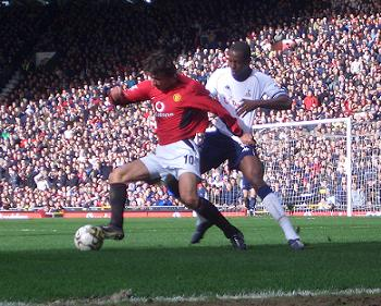 Ruud Van Nistlerooy at Old Trafford - (Manchester United vs Tottenham 3-0)